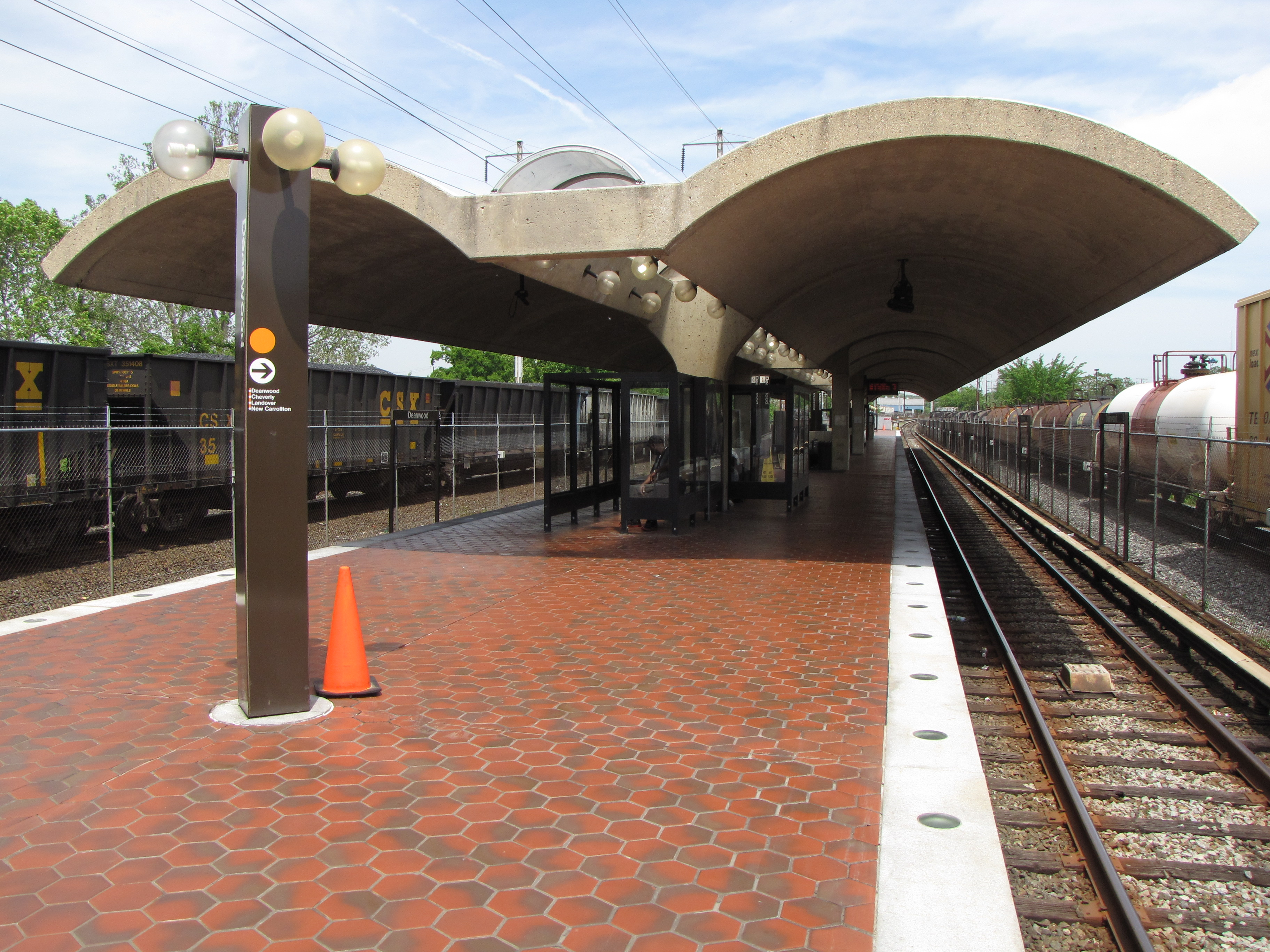 Inbound end of Deanwood station, on the Orange Line of the Washington Metro.